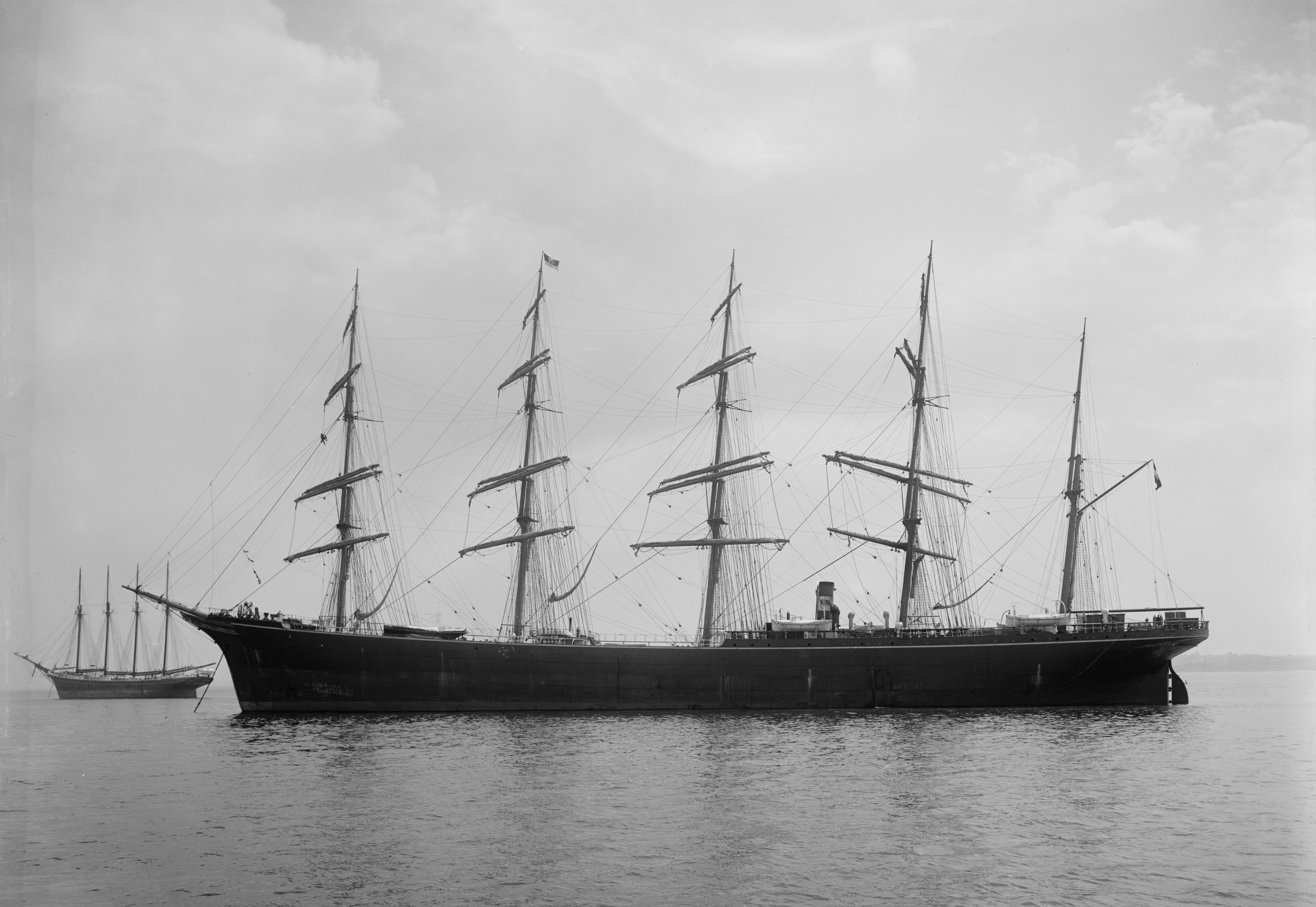 Broadside photo of R.C. Rickmers. Reproduction Number: LC-D4-22246